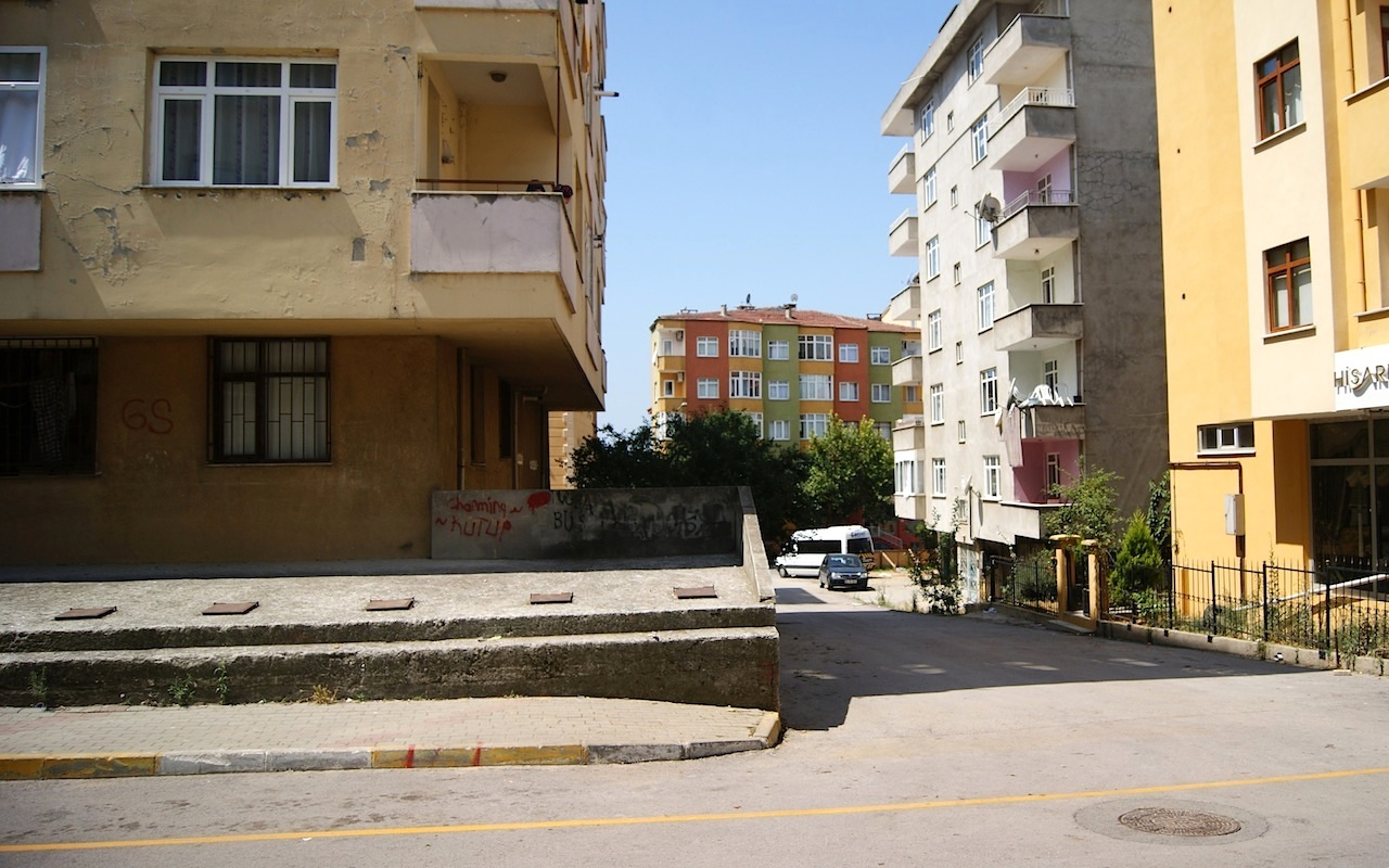 Istanbul - Marmara (by CherryX).jpg